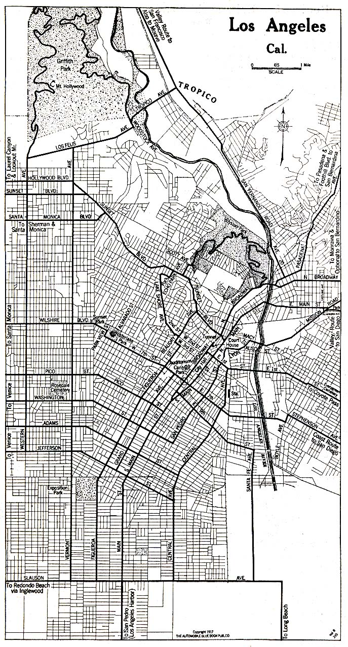 Map of Los Angeles in 1917 from Automobile Blue Book, originally listed at